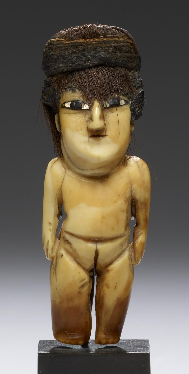 Andean civilization is renowned for spectacular textiles that were at the heart of social politics and economics from earliest times. The fiber arts permeated all facets of daily existence, from clothing to protect the body to bridges spanning treacherous gorges. The form, materials, quality, and decorative imagery on clothing conveyed a person's social status or political affiliation and even recounted his or her specific accomplishments on behalf of the state. This female figure originally was dressed in clothing appropriate to her meaning as an offering- perhaps a building dedication cache or ritual deposit at a huaca, a sacred location where divine forces are concentrated. Coastal Andean peoples were keen observers of the vast ocean world. The Nasca, in particular, relied heavily on marine resources for food and materials for a variety of uses, such as the whale tooth from which this captivating lady was carved. The salty ocean and its unusual creatures constituted a dyadic opposition to the earth with its fresh waters. The carving of a ritual figurine from the tooth of a gigantic marine creature certainly carried extra spiritual significance.